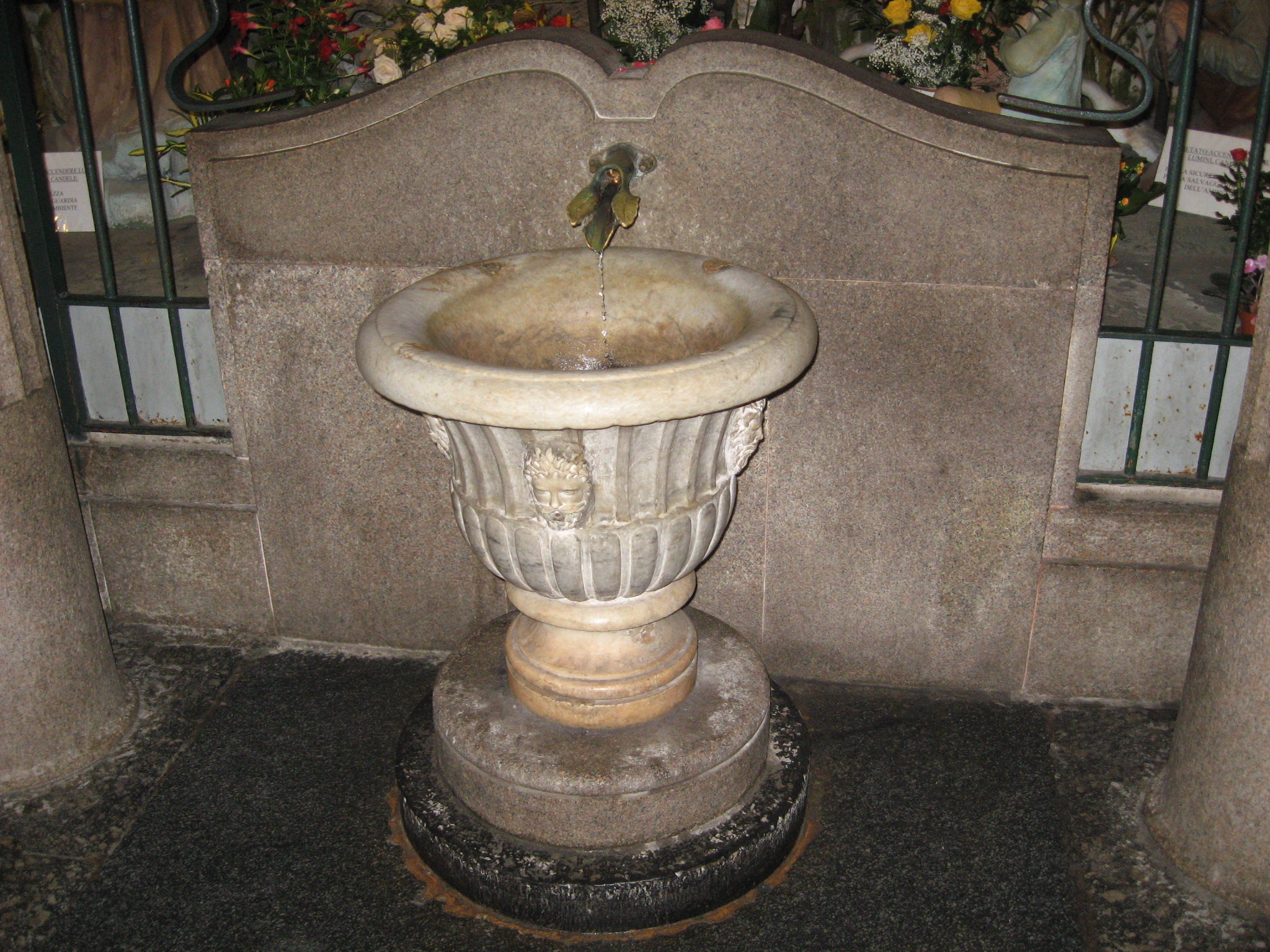 The old miracolous spring in the Santuario della Madonna del bosco in Imbersago, Italy